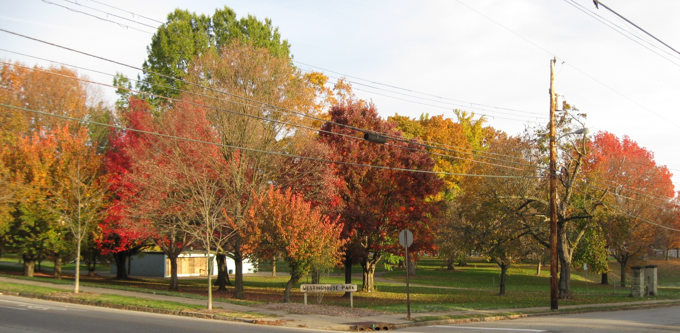 A photo of Westinghouse Park in Pittsburgh, PA on November 4, 2013, viewed from the east.